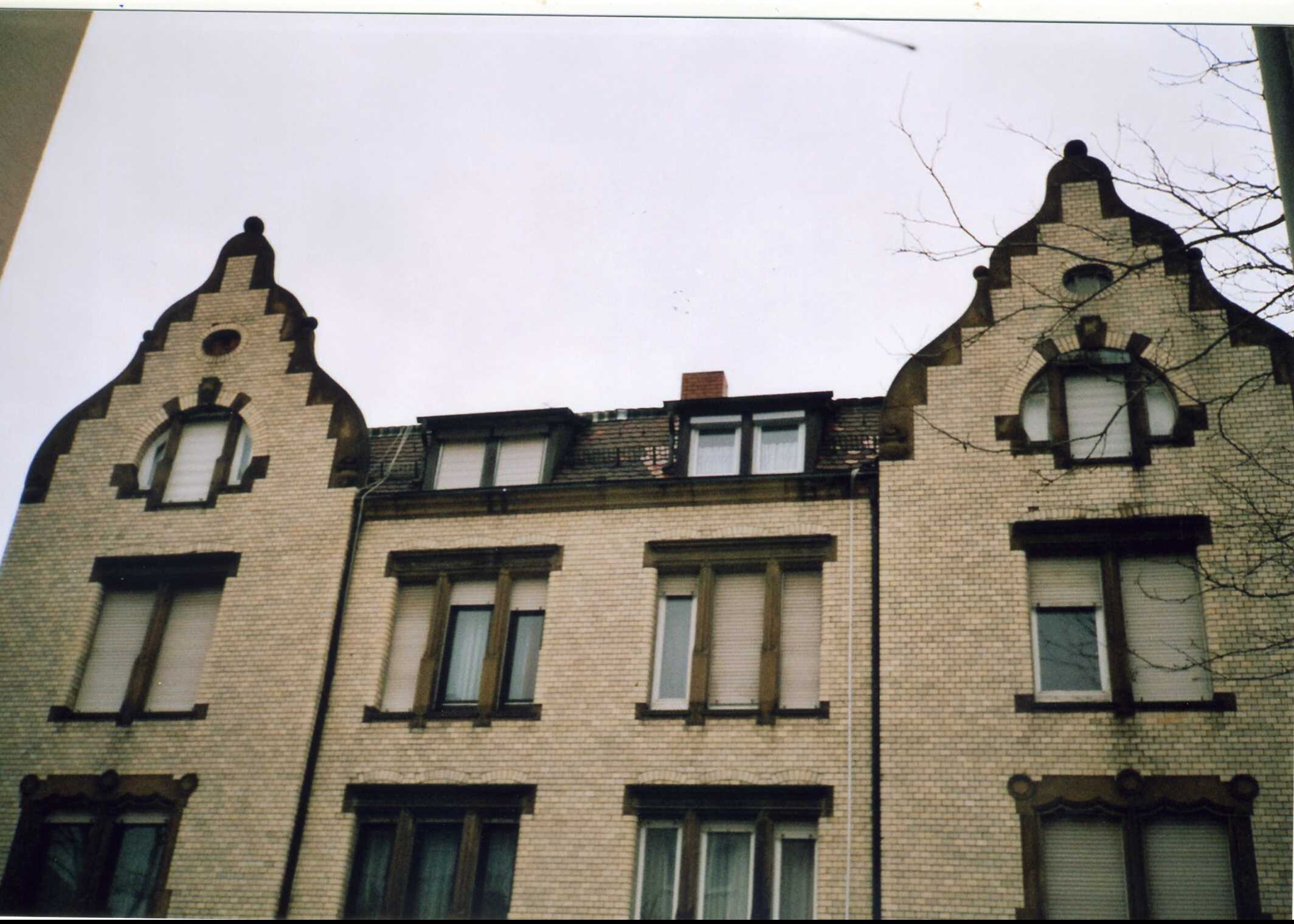 Heilbronn